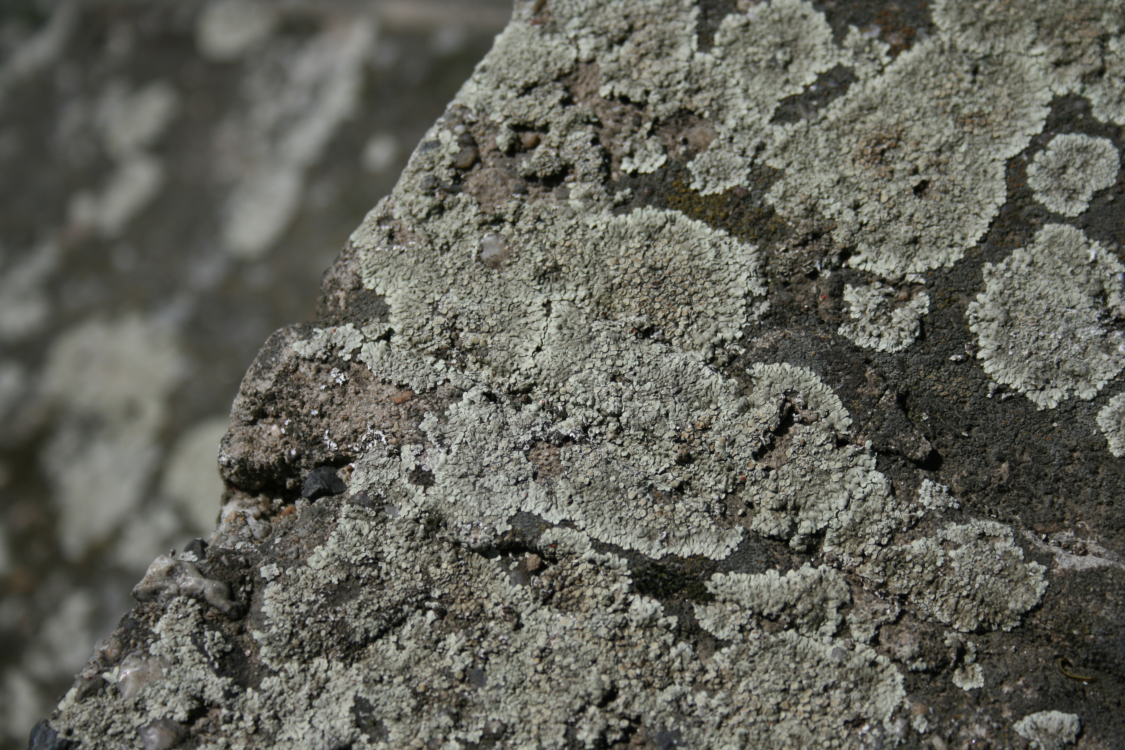 Lichen on the bank of the Bega canal in the city of Timisoara, Romania.